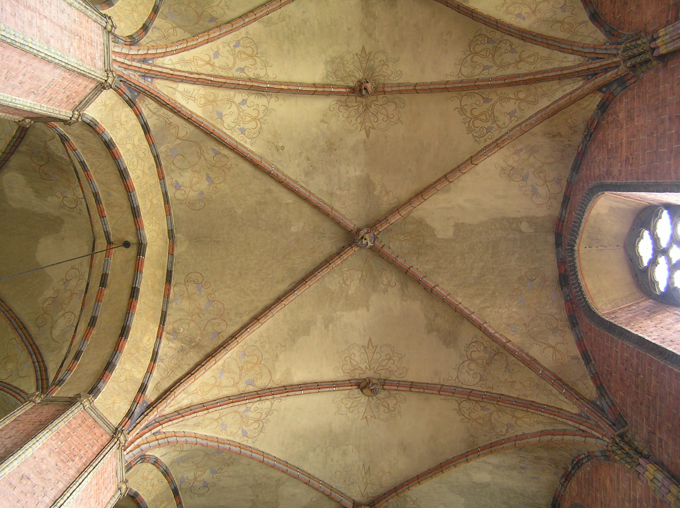 Chełmno, church of Blessed Virgin Mary, vaulting in northern aisle